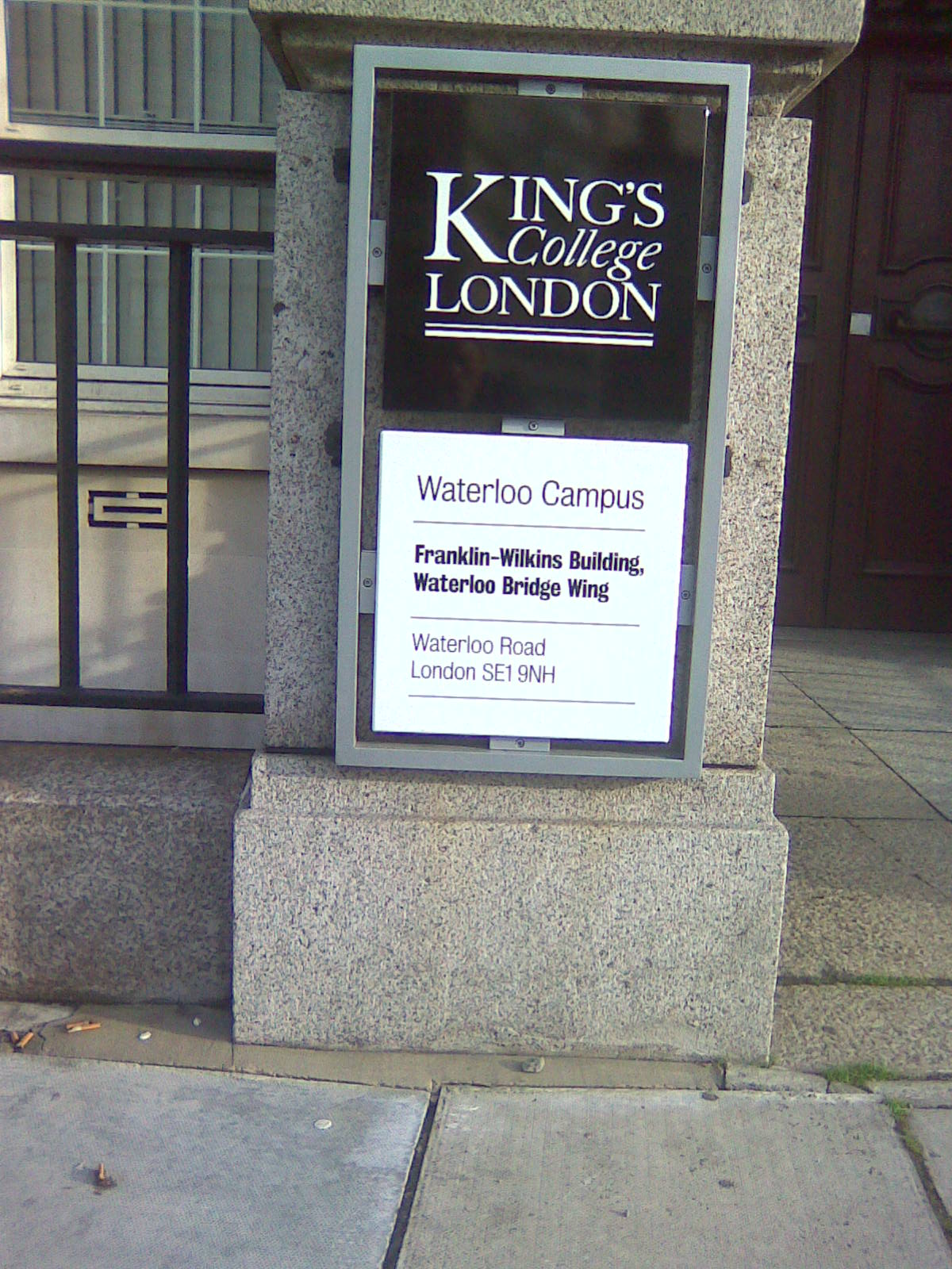 The plaque designating the Franklin Wilkins building at King's College London's Waterloo campus.